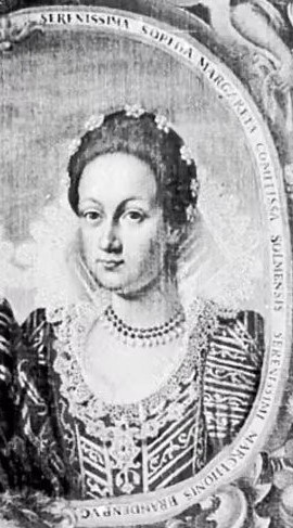 Margravine of Brandenburg-Ansbach